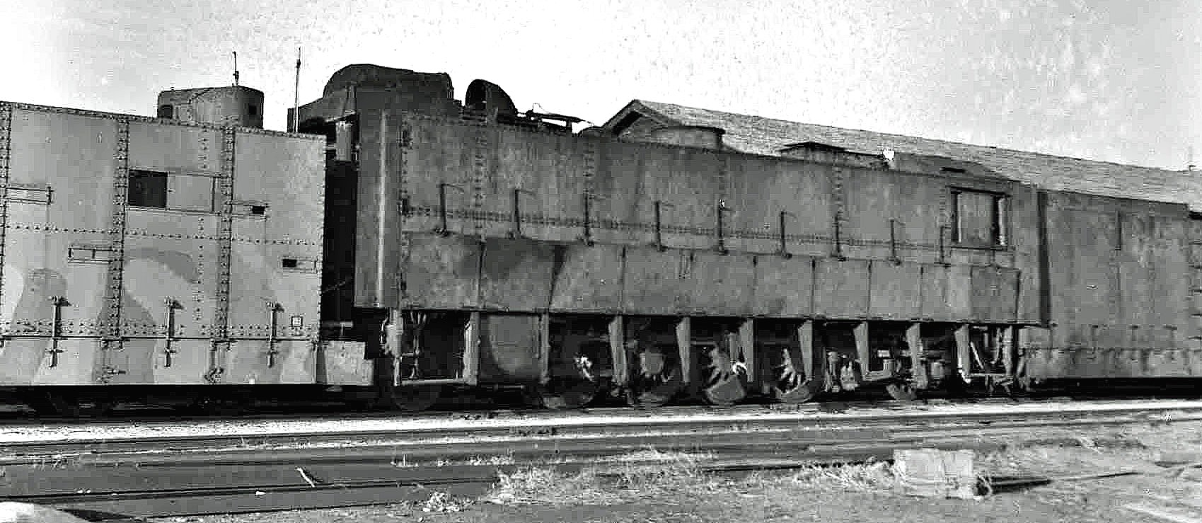 Locomotive of the 'Type 94 Armoured Train' of the Imperial Japanese Army. On a cold December Sunday in 1945, we drove northwest from Seoul, Korea, planning to visit the 38th Parallel again. We came upon this armored train on the way. Apparently, the Japanese had built it to help repel an invasion. We then drove across a river on a railroad bidge and had a friendly visit with the Russians. However, they wouldn't let us take any pictures. I found this interesing site about Japan's use of armored trains in Manchuria: Armoured Train Maybe this train came from Manchuria. Looking at the large size, I found interesting details.